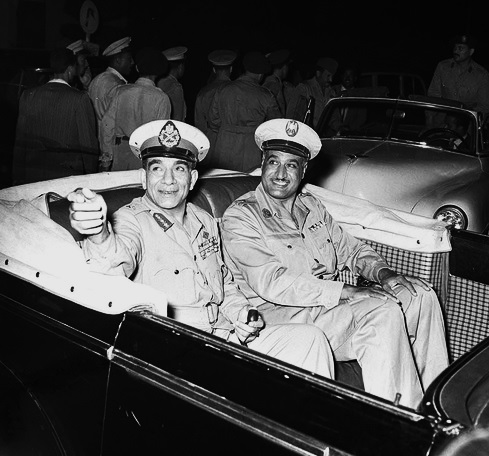 Prime Minister Gamal Abdel Nasser (right) and President Muhammad Naguib (left) in an open-top automobile during celebrations marking the second anniversary of the Egyptian Revolution of 1952